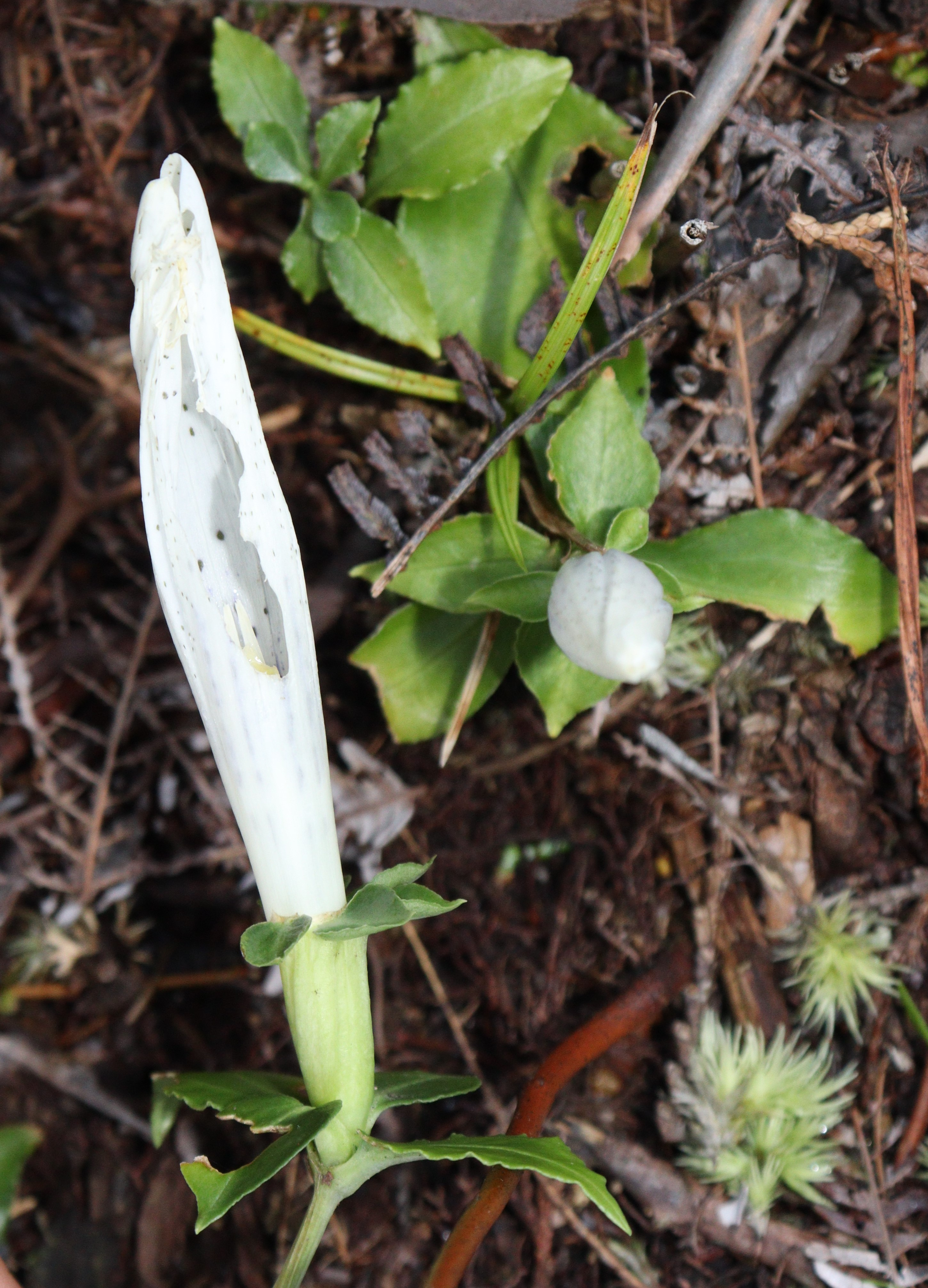 Gentiana sikokiana in Mount Tengura, Kihoku, Mie Prefecture, Japan.